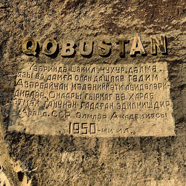 Announcement in Gobustan, 1950. Translation; The stones which have shapes, holes, writings and brands on them are of the monuments of ancient Azerbaijan civilization. To break and harm them has been legally prohibited. Azerb. SSR Academy of Sciences